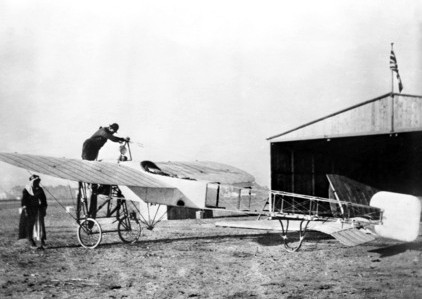 Lieutenant Colonel Walter Oswald Watt's aeroplane in Egypt, seen in front of a hangar flying a Union Jack on the flagpole. The Bleriot XI two seater was the first British plane and pilot to fly in Egypt.